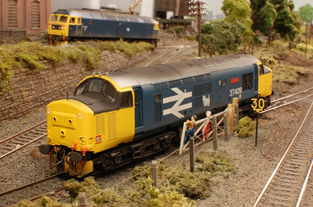 Stirling and Clackmannan District MRG layout 'Devilla Colliery'.